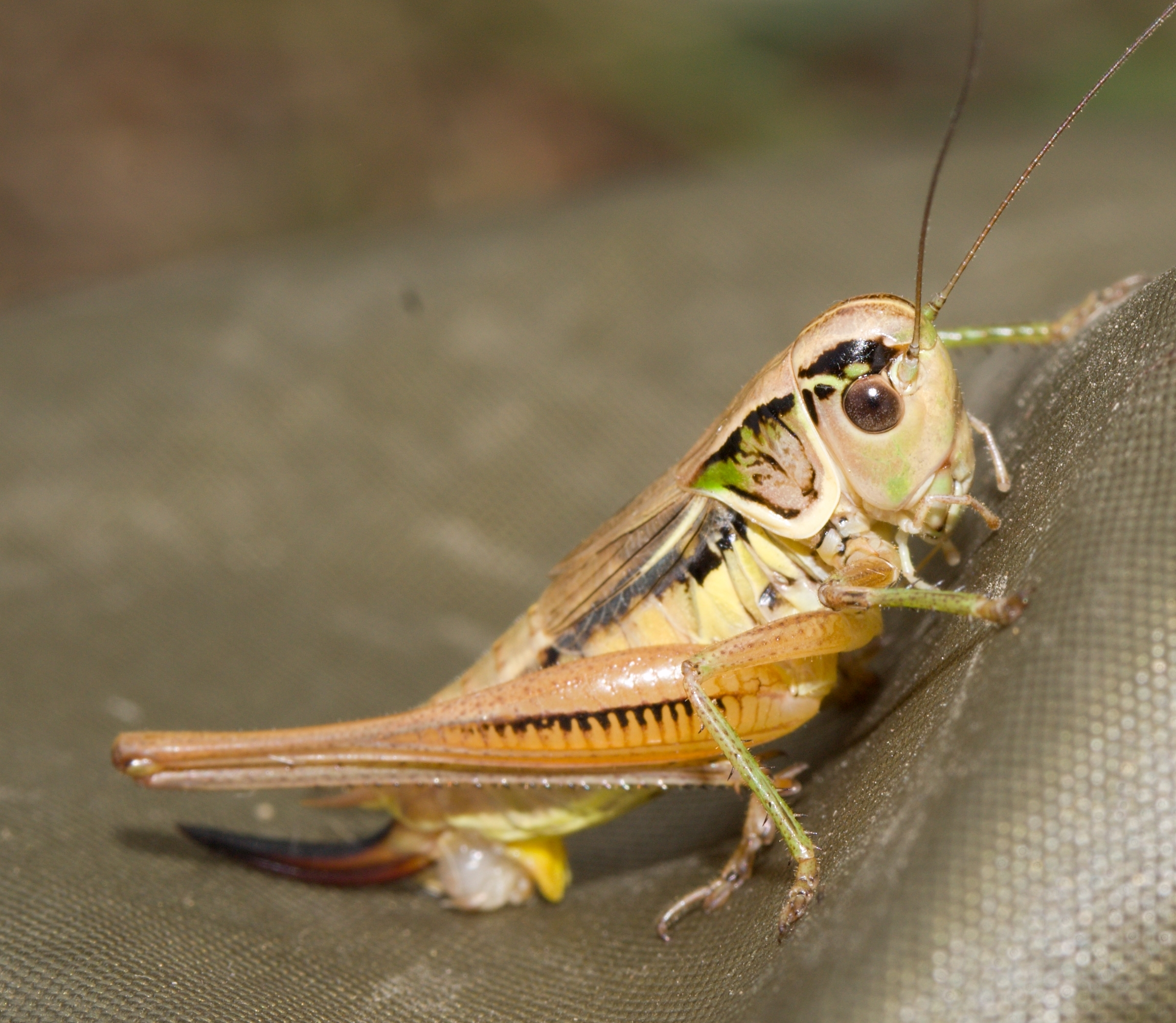 Roeseliana roeselii female with spermatophore after copulation.